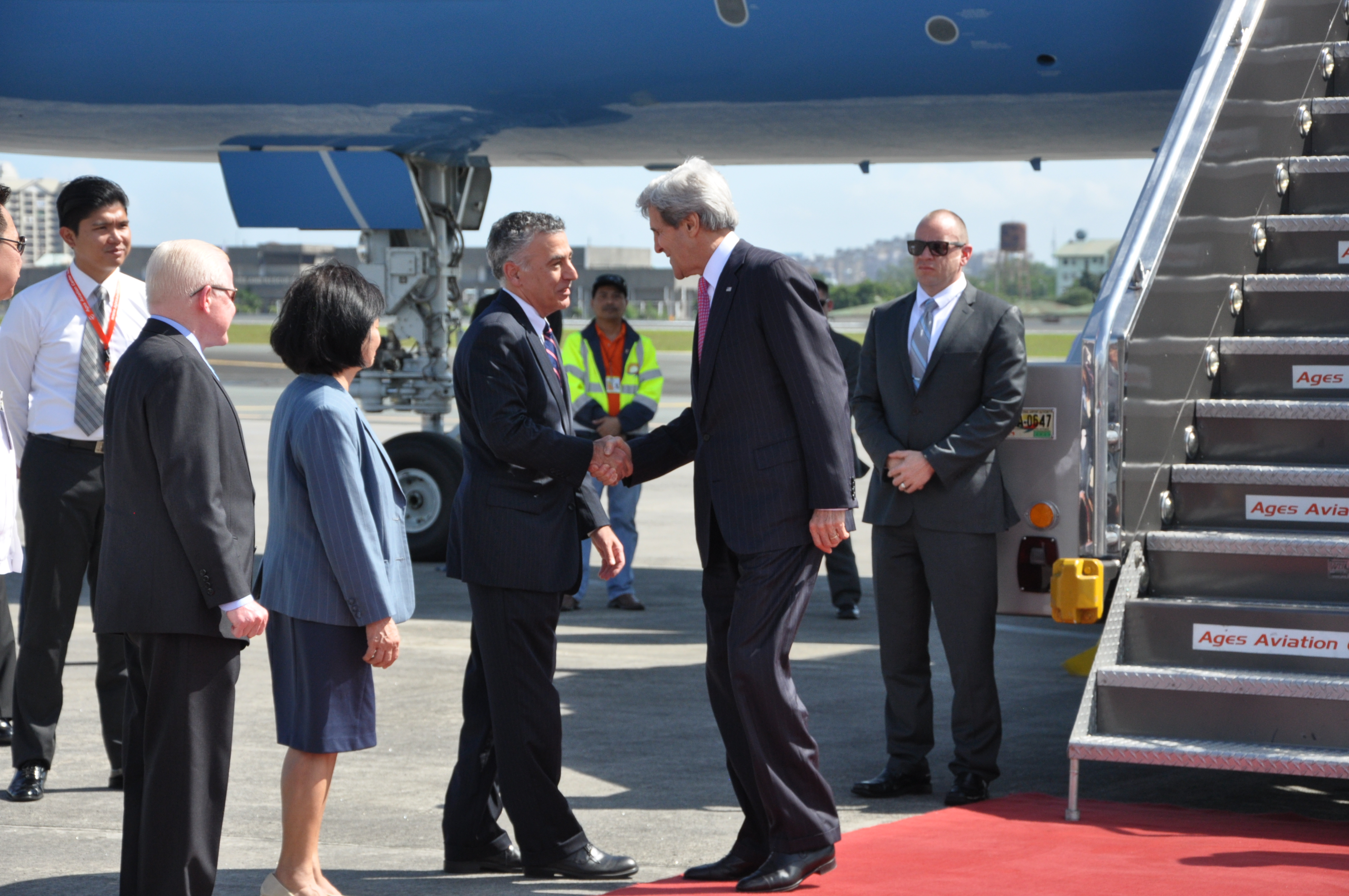 U.S. Ambassador to the Philippines Philip S. Goldberg welcomes U.S. Secretary of State John Kerry to Manila, Philippines, for his two-day visit on December 17, 2013. Also pictured are Philippine Ambassador to the U.S. Jose L. Cuisia and Philippine Undersecretary of Foreign Affairs in International Economic Relations Laura Quiambao-Del Rosario. [State Department photo/ Public Domain]